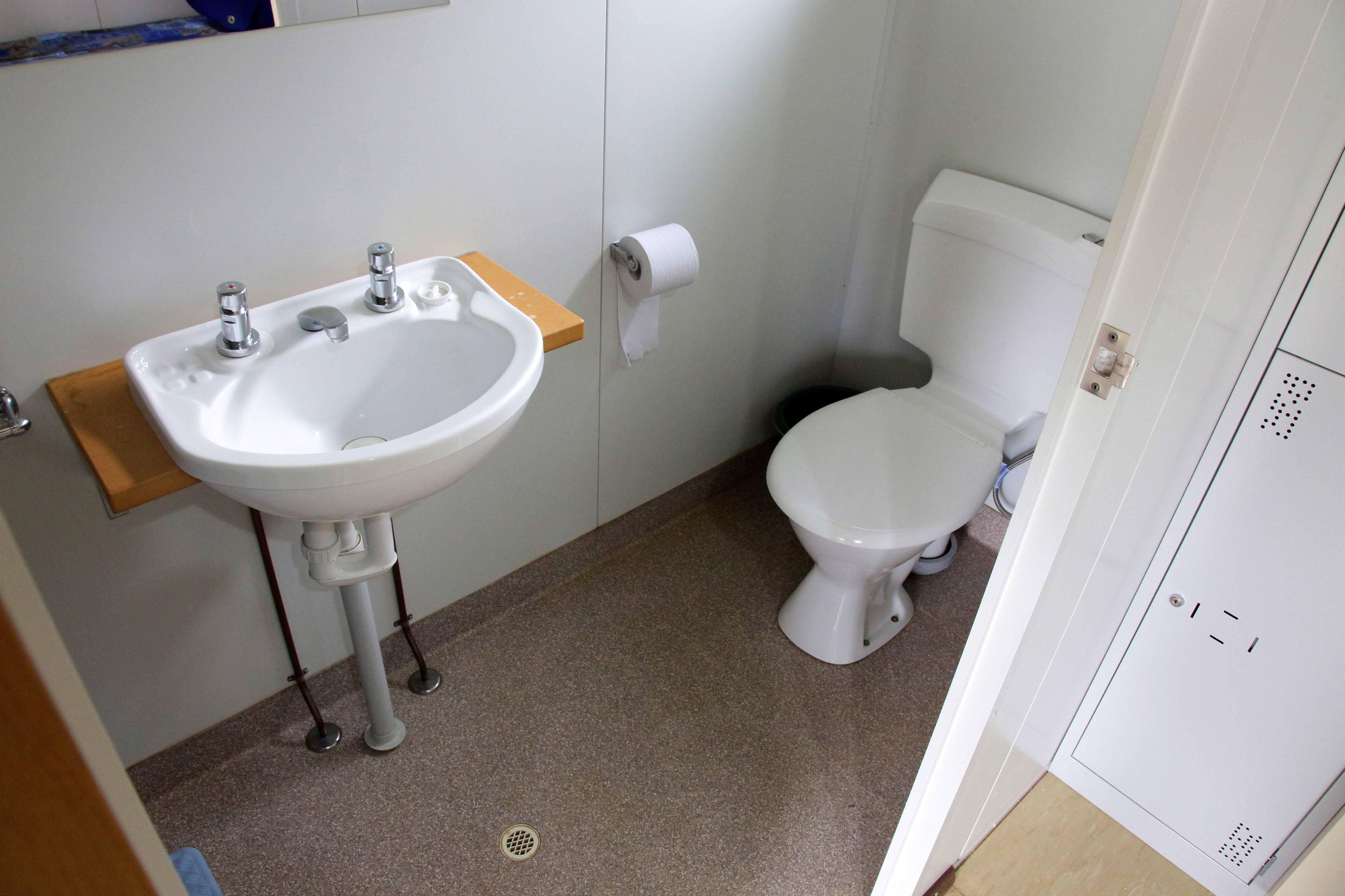 Yongah Hill Immigration Detention Centre